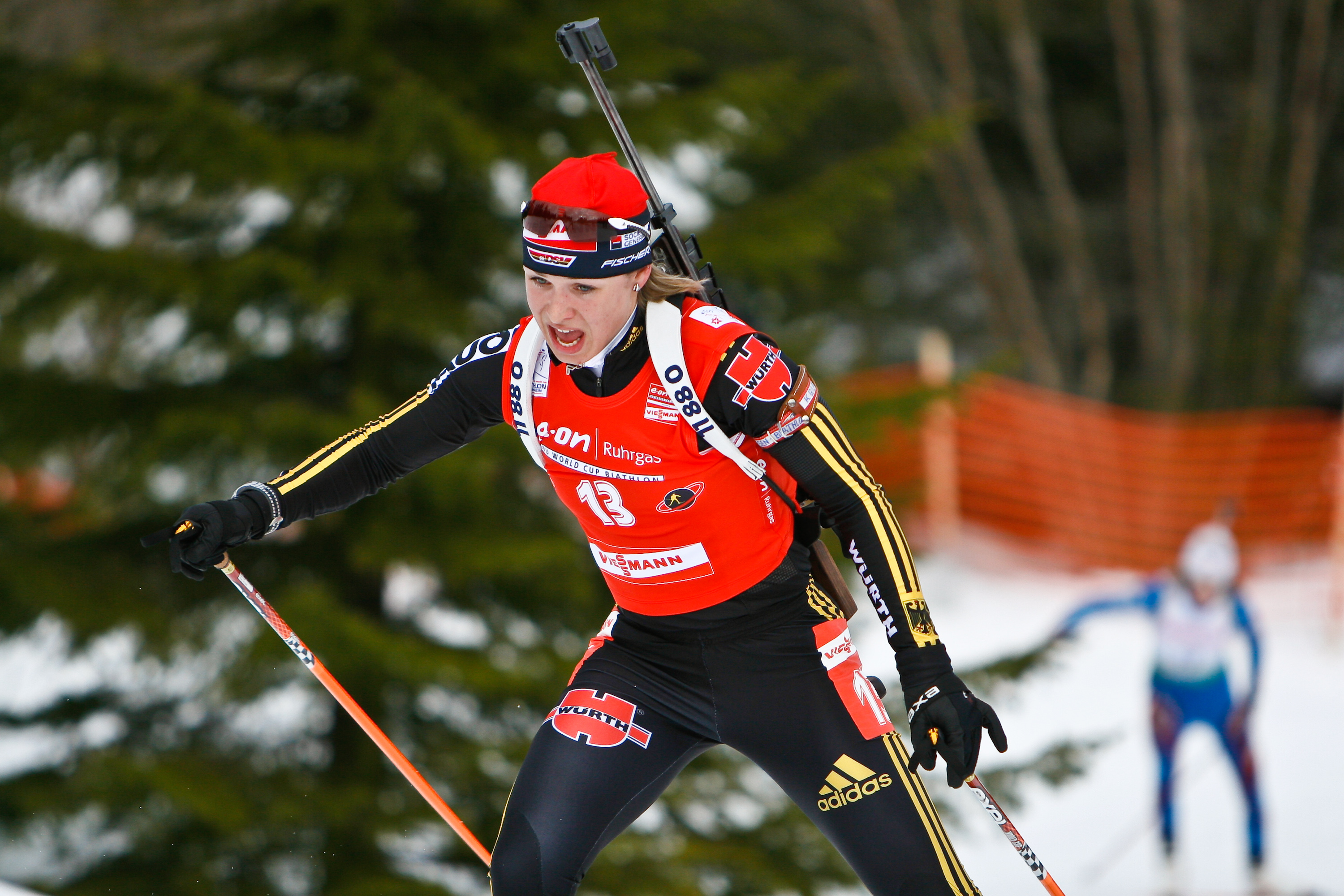 German biathlete Magdalena Neuner at the IBU World Cup in Trondheim, Norway, March 2009.